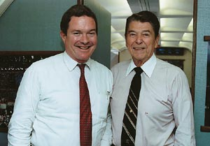 Ronald Reagan hosts Kit Bond aboard Air Force One